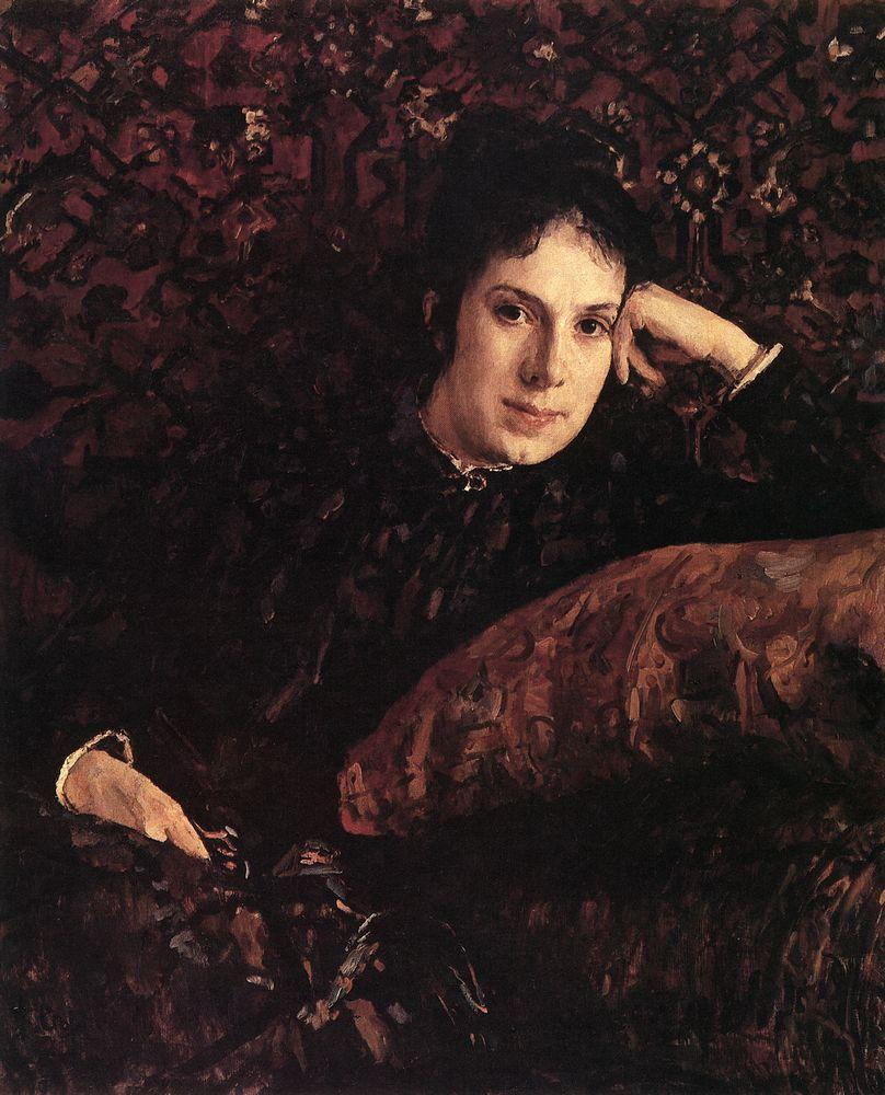 Portrait of Yekaterina Chokolova. 1887. Oil on canvas. Private collection.